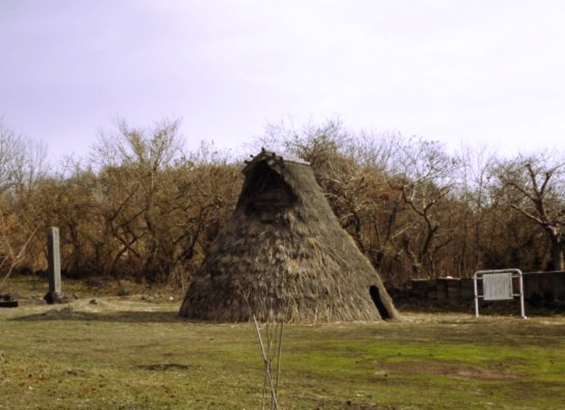 Nagano-ken,Komoro-shi, Jomon period Teranoura stone age settlement ruins